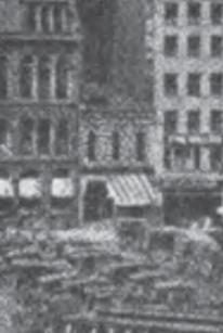 Closeup of the Neal Clothing Building on Public Square in downtown Lima, Ohio, United States, apparently seen from the square's southeastern corner. Date is unknown, but cannot be after 1921.